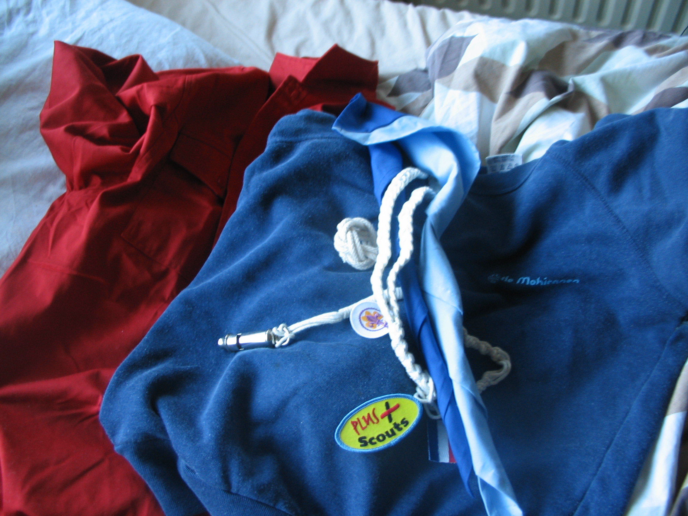 Scouting uniform of the Netherlands